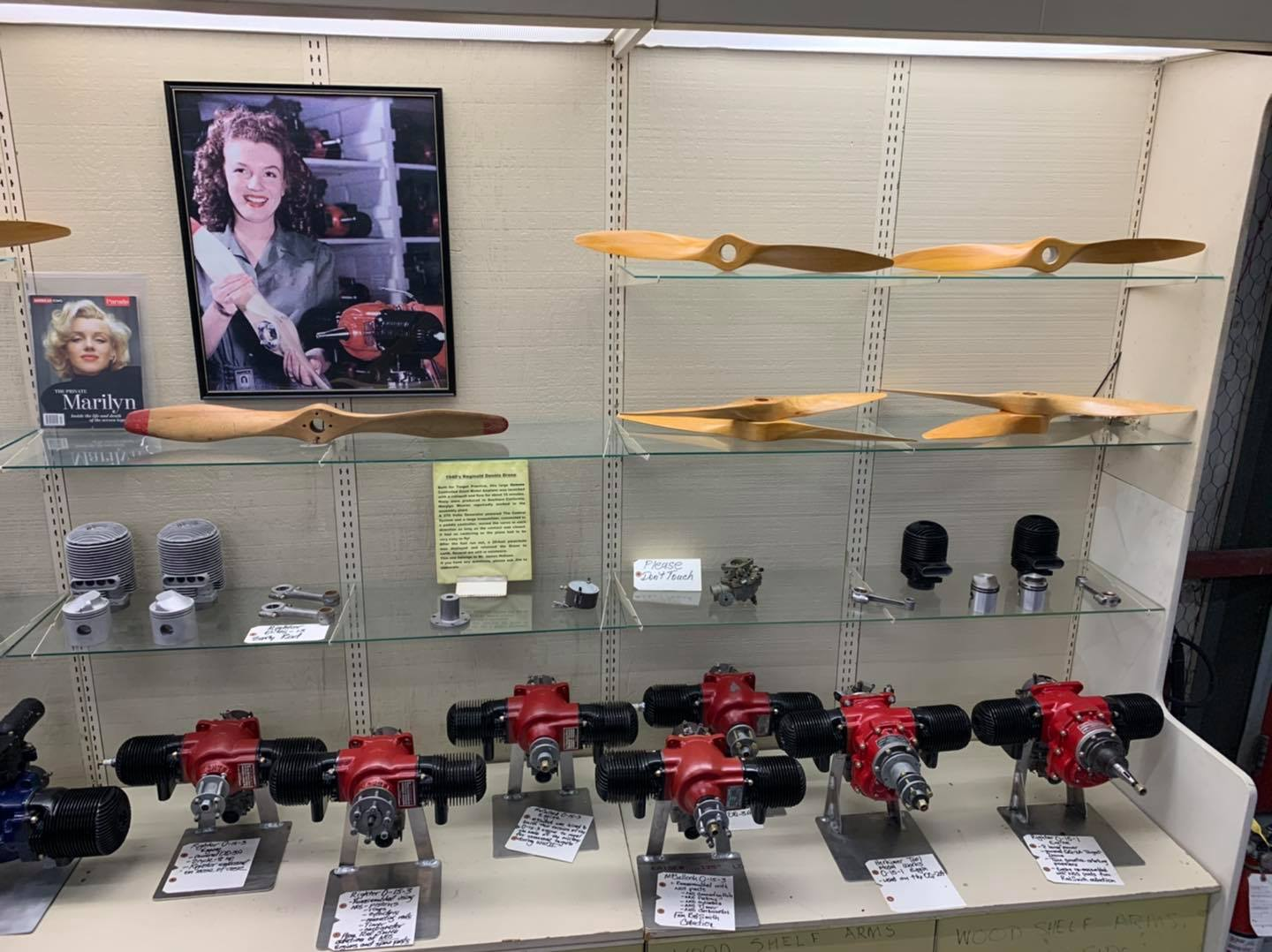 AUVM has OQ-2/3 engines on display assembled from "NOS" parts!